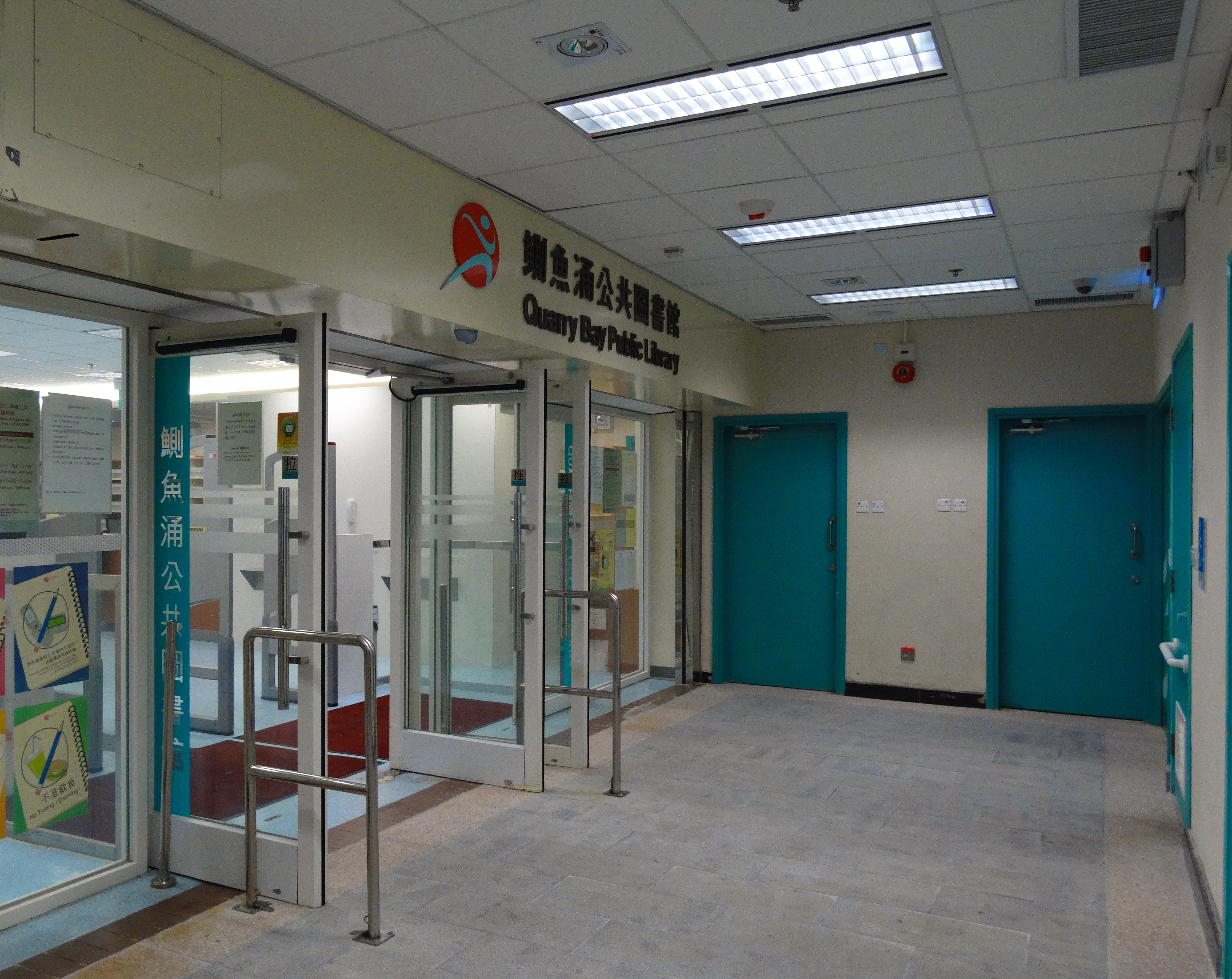 Quarry Bay Public Library, Hong Kong.